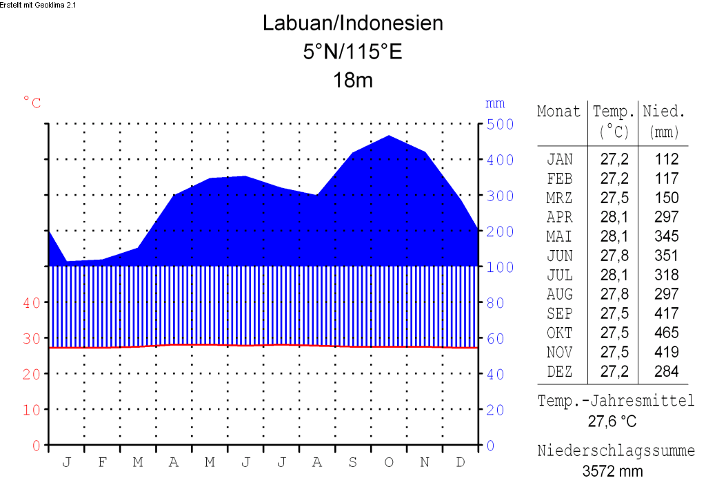 climate chart in the format by Walter and Lieth, metric, °Celsisus and millimeters, made with Geoklima 2.1